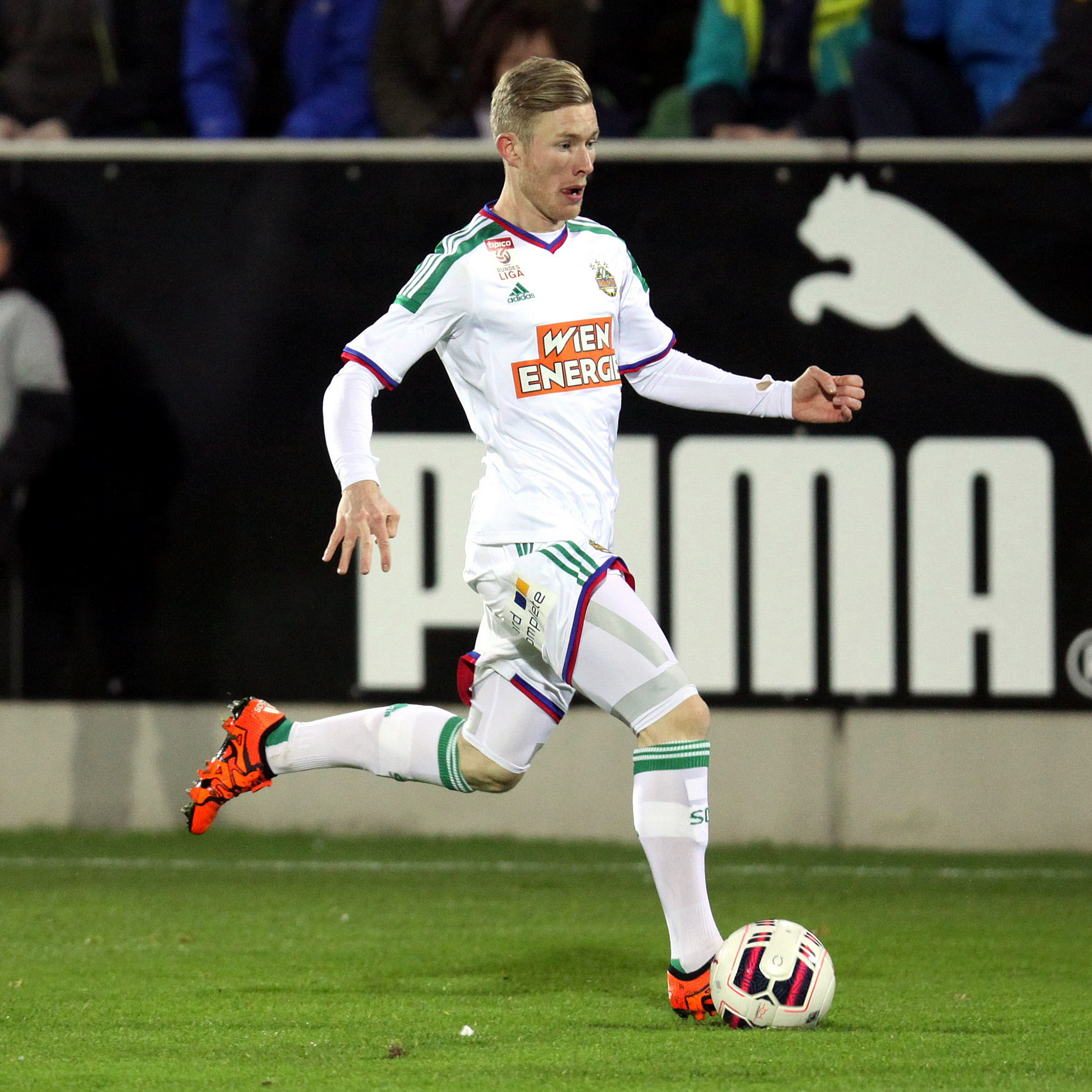 Match of the Austrian Football Bundesliga – SV Mattersburg (green shirts) vs. SK Rapid Wien (white shirts) 1-6 (0-5) at 2015-11-21 in Pappelstadion, Mattersburg – The photo shows Florian Kainz.